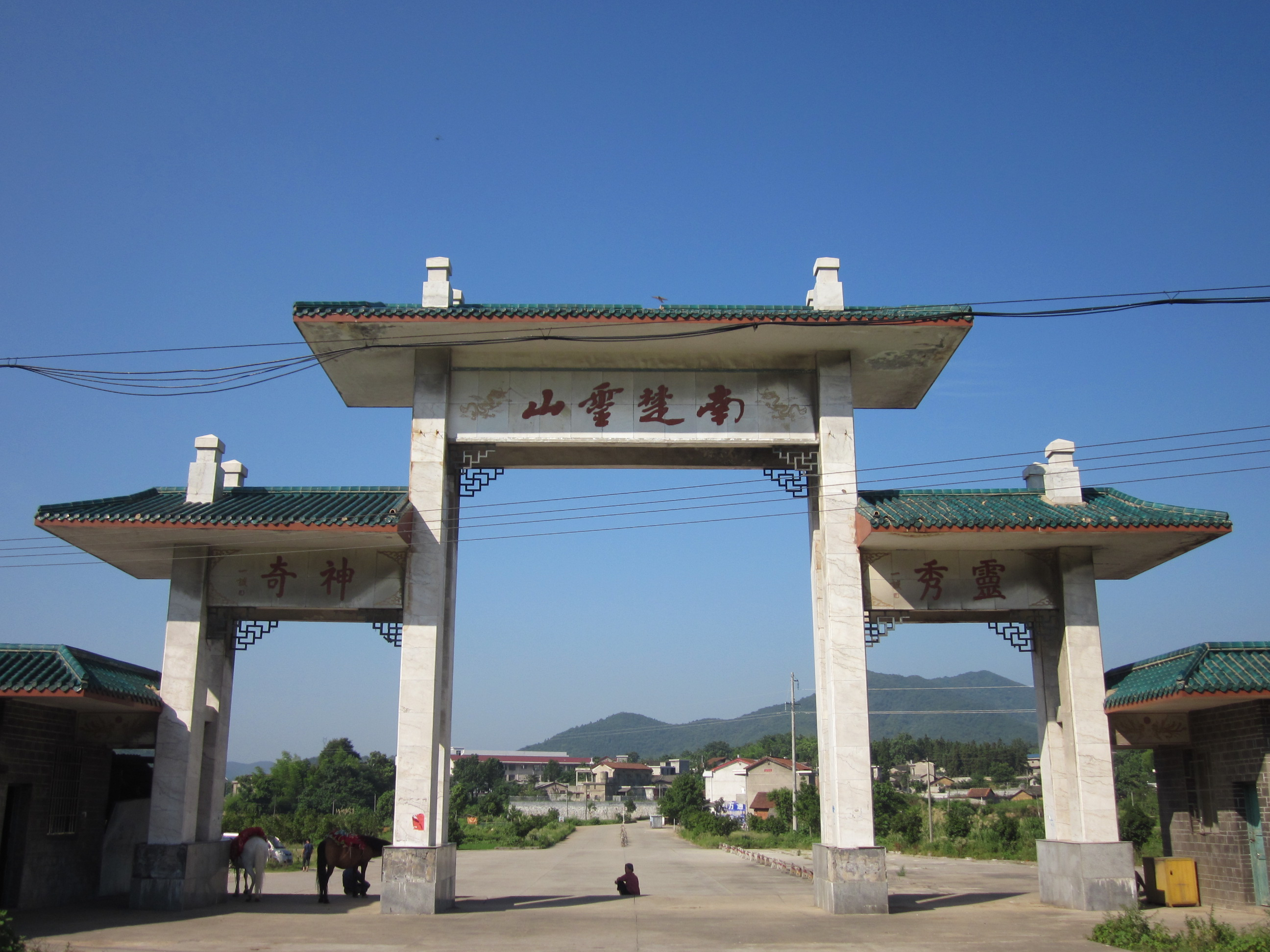 The Paifang at Baiyun Temple, in Ningxiang County, Hunan, China. The Chinese characters "南楚靈山" (南楚靈山 means the spiritual mountain in south Hunan) on the paifang was written by Zuo Zongtang, a prominent China's general during the 19th century. Chinese characters "靈秀" (靈秀 means delicately beautiful) and "神奇" (神奇 means miraculous) written by former Venerable Master of the Buddhist Association of China Yicheng (1927–2017) are engraved on both sides.